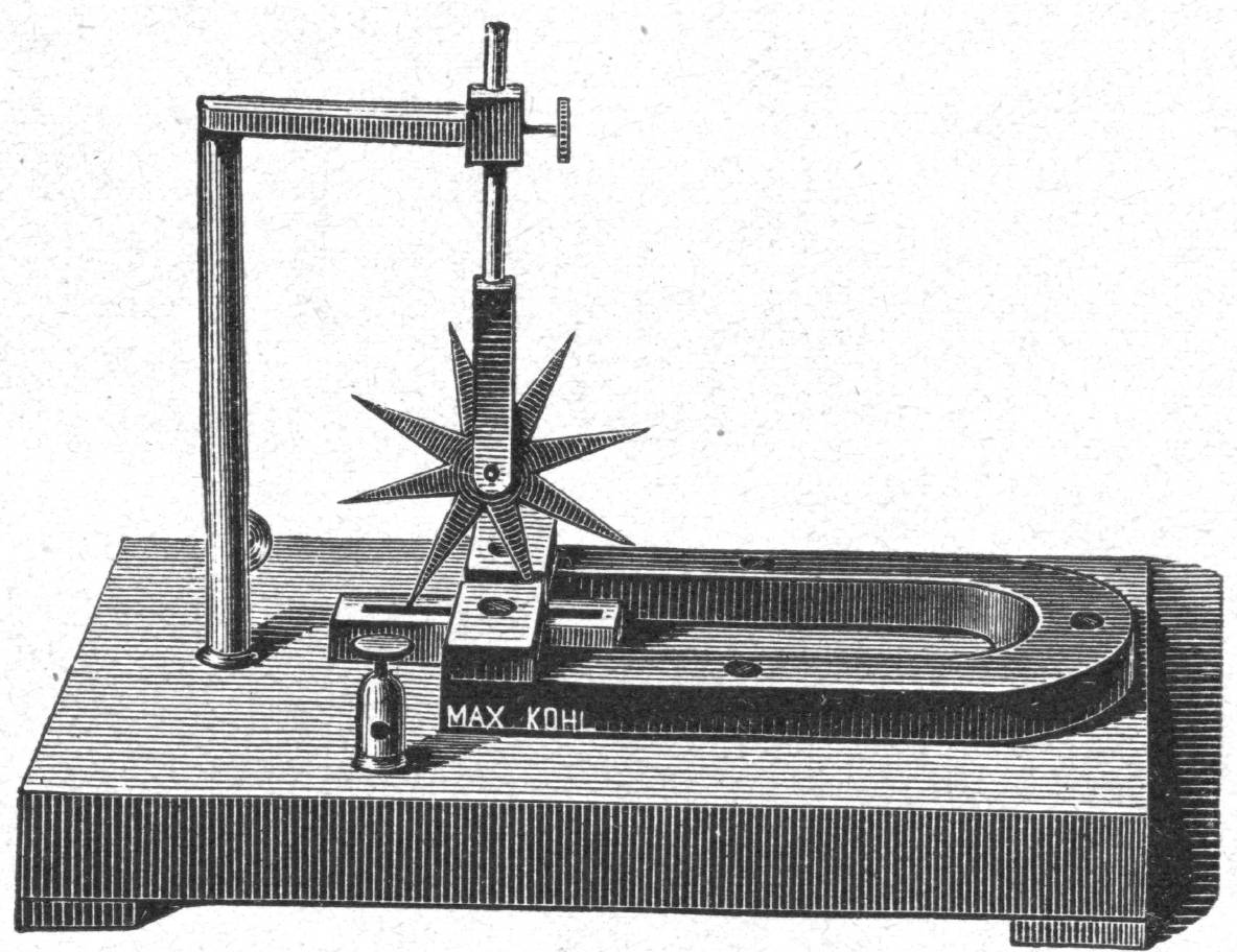 Barlow's wheel, an experimental electric motor designed by English mathematician Peter Barlow in 1822. It is a form of homopolar motor. Electric current flows from the axle of the rotor through the points which dip into a trough of mercury, and back to the battery. The points are between the poles of the magnet which creates a transverse magnetic field. The Lorentz force due to the moving charges in the magnetic field causes the wheel to rotate.